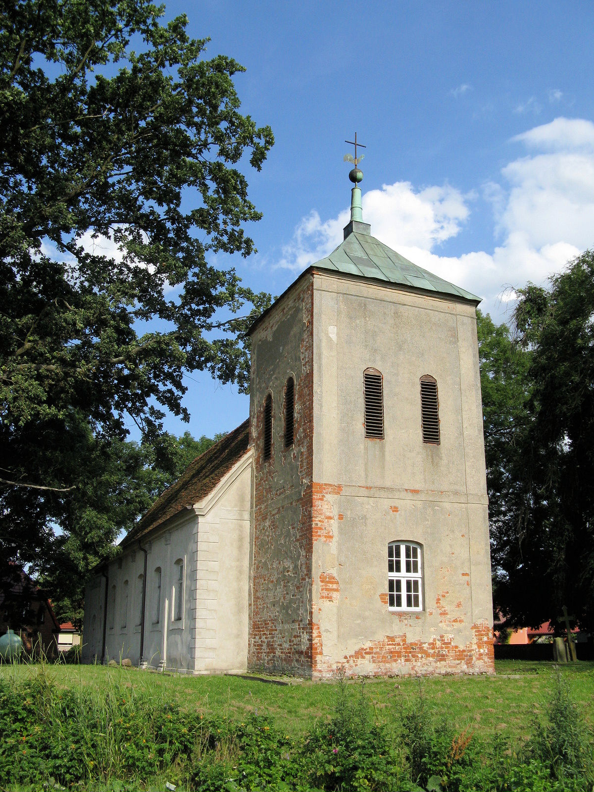 church in Melz, disctrict Mecklenburgische Seenplatte, Mecklenburg-Vorpommern, Germany